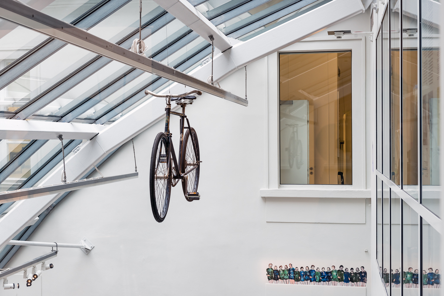 Jewish Museum Vienna, Our City